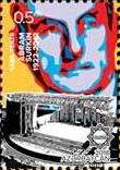 Architects Union of Azerbaijan. Stamp book. Size of book: 177x200. Quantity of pages: 44. This book is about Azerbaijan architects who lived and created in the second part of 20th century. There are included three blocks of four stamps in each stamp book. Vuqar Eyyubov is the painter of the book and the stamps. Block size 75x90mm. Stamps size: 26x37mm. Catalogue number:1506-1517 Perforation:through 13 ¼ Issued: by Bobruysk Integrated Printing House Belarus, Bodruysk city Circulation:5000 stamps in each block Stamps included in to blocks: N1506 Honoured architect Ilham Aliyev N1507 Architect Vadim Shulgin N1508 Engineer architect Sanan Sultanov N1509 Honoured architect Parviz Huseynov N1510 Honoured architect Hajimurad Shugayev N1511 Honoured architect Avrora Salamova N1512 Honoured architect Fira Rustambayova N1513 Honoured architect Abram Surkin N1514 Professor Abdulvahab Salamzade N1515 Architect Davud Akhundov N1516 Architect Talat Dadashov N1517 Architect Boris Revazov FDC: each post block of 100 cover (total 300 cover)